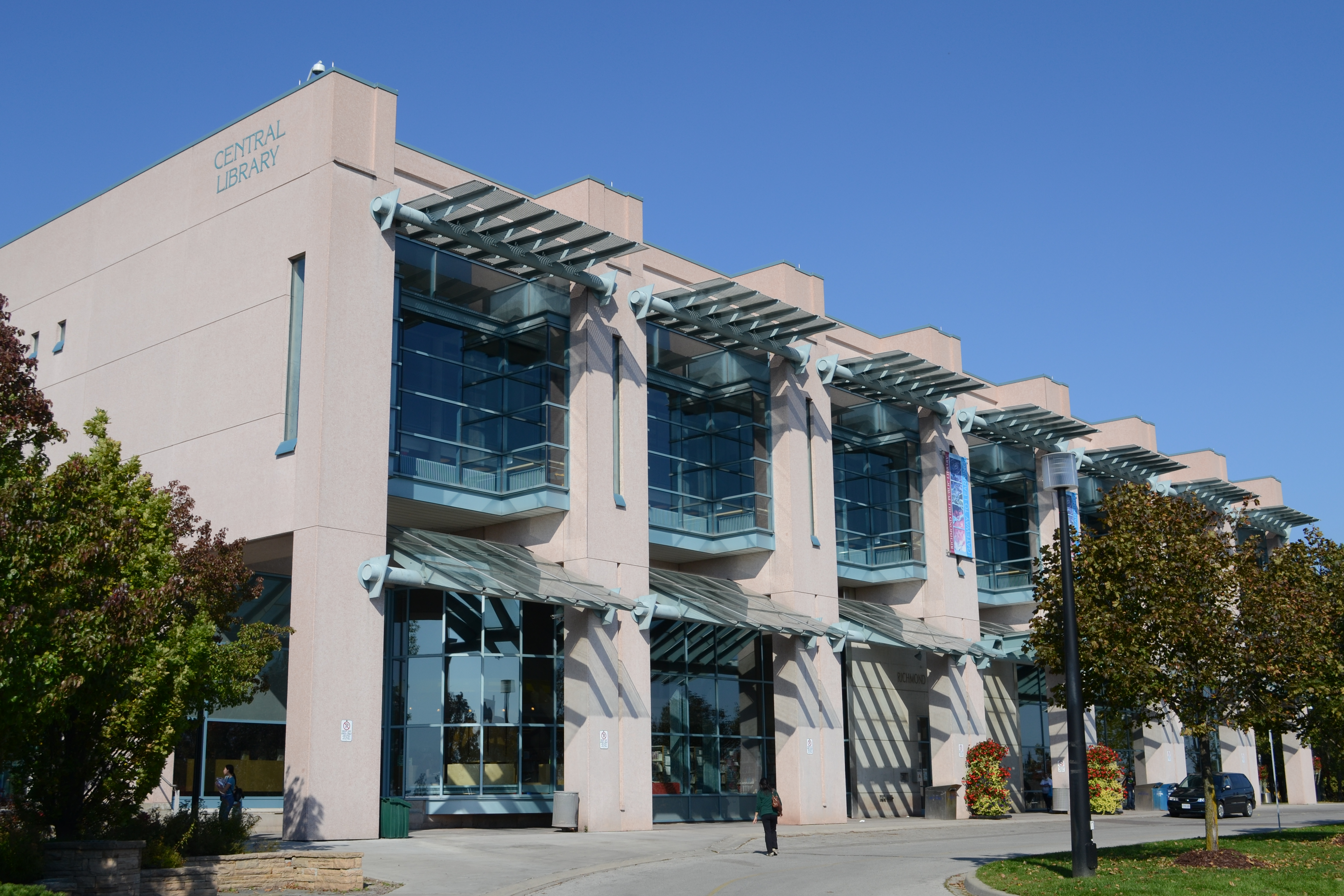 Central Library, Richmond Hill Public Library, Richmond Hill, Ontario Canada